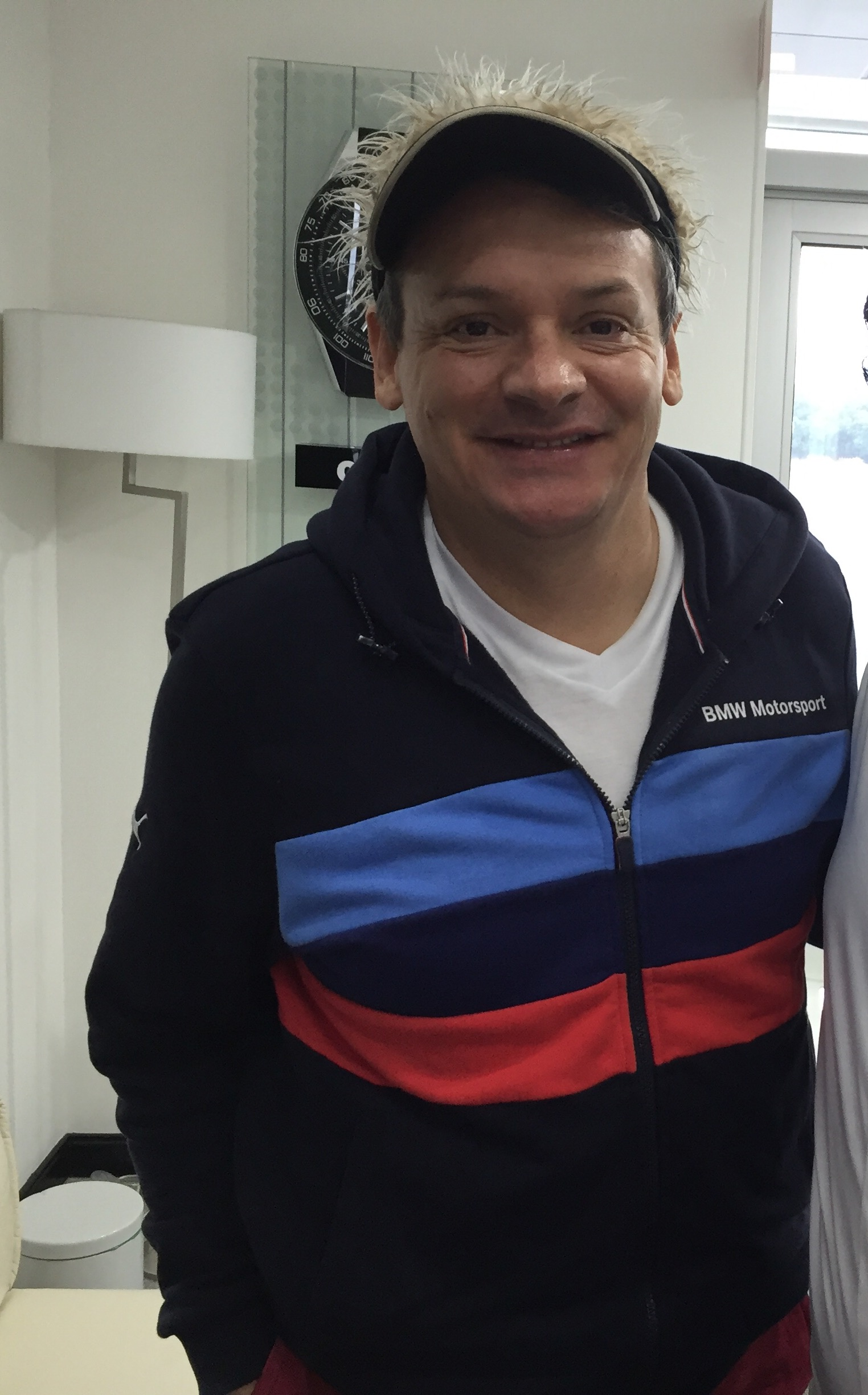 Colombian humorist Don Jediondo at AVIANCA VIP lounge in Cúcuta airport